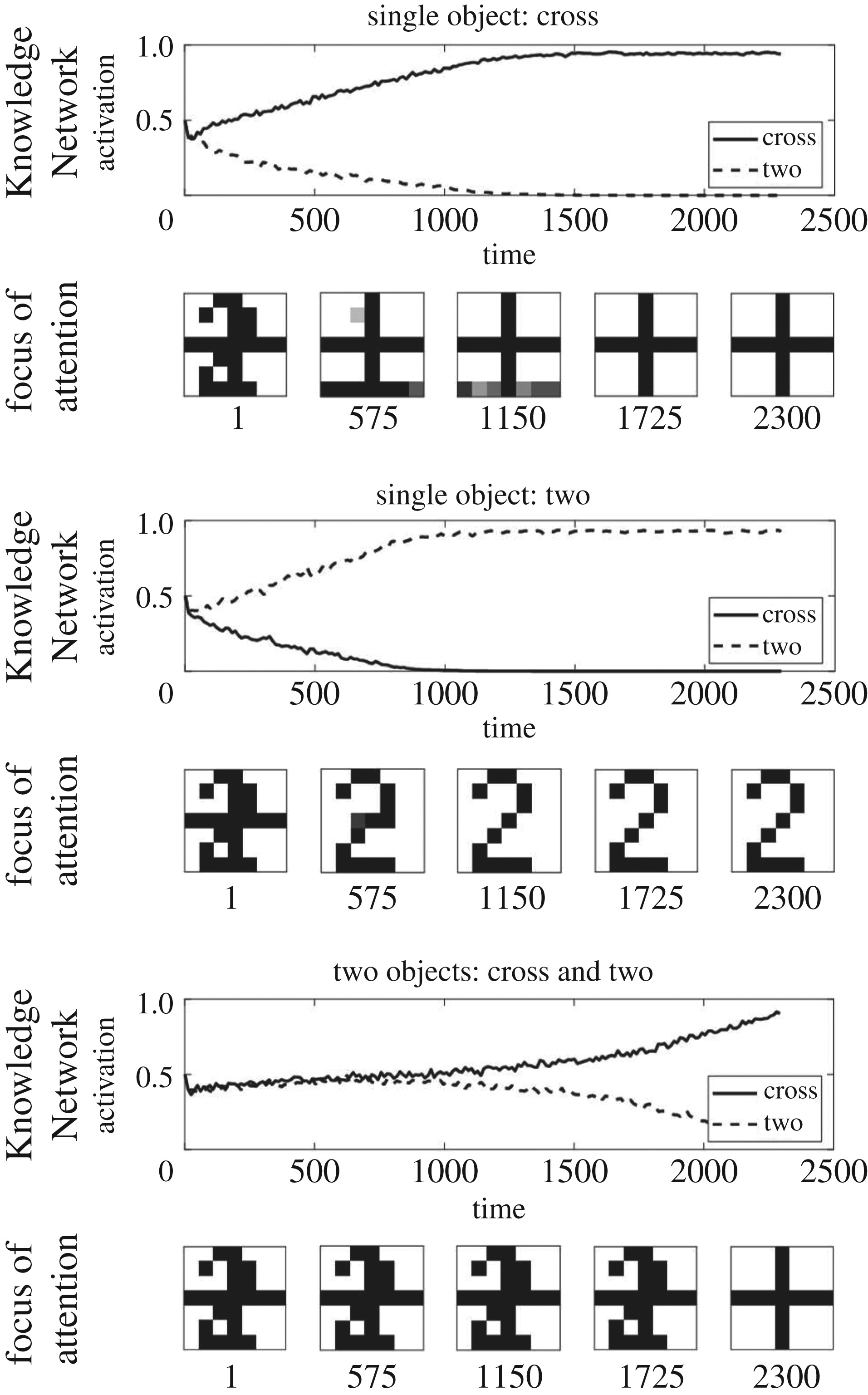 Three exemplar simulation results for the multiple objects costs with PE-SAIM. The graphs show the time course of the activation for the FOA and the two template units in the Knowledge Network.